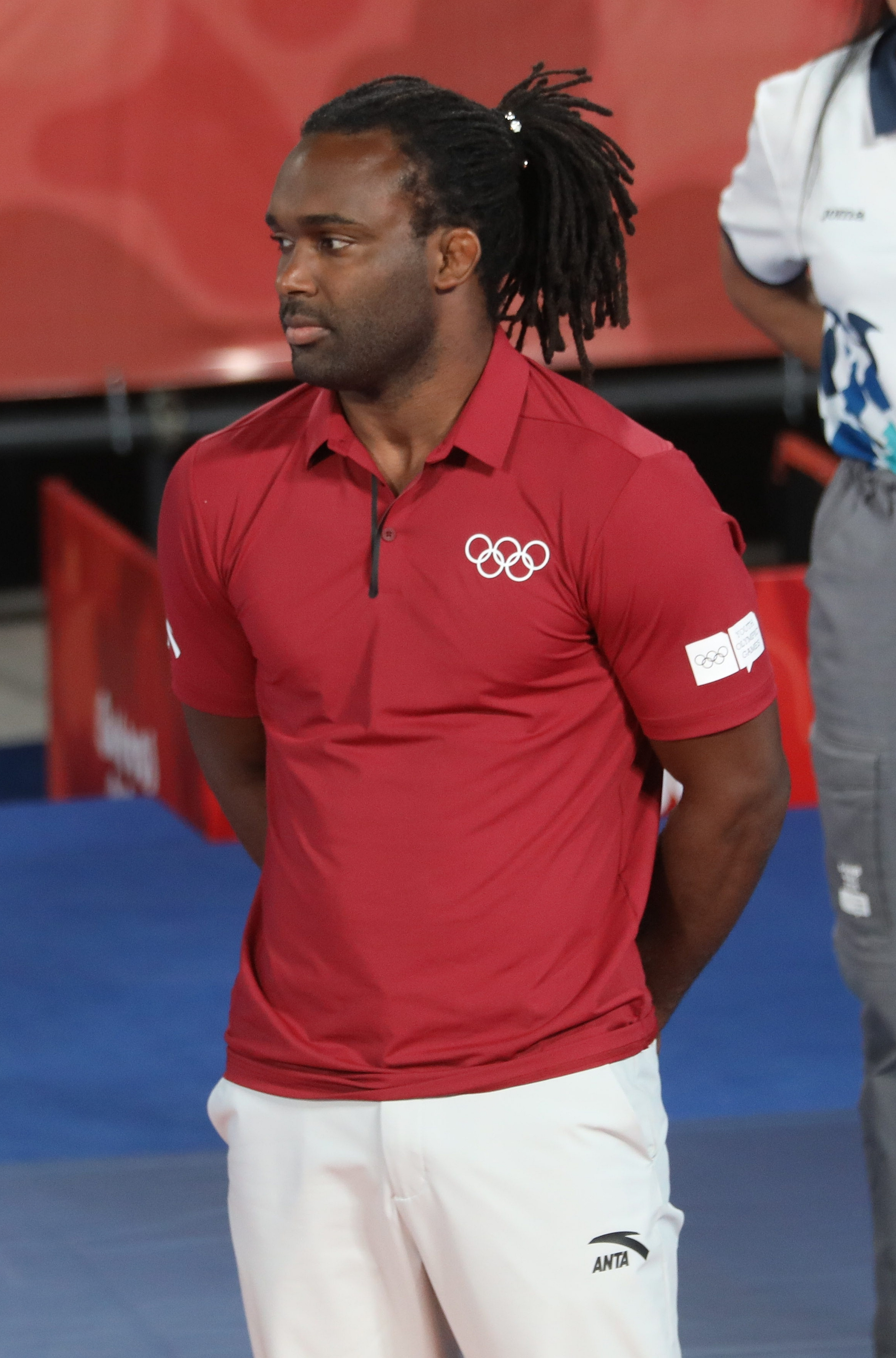 Wrestling victory ceremony of the boys 71 kg at the 2018 Summer Youth Olympics in Buenos Aires on 12 October 2018.